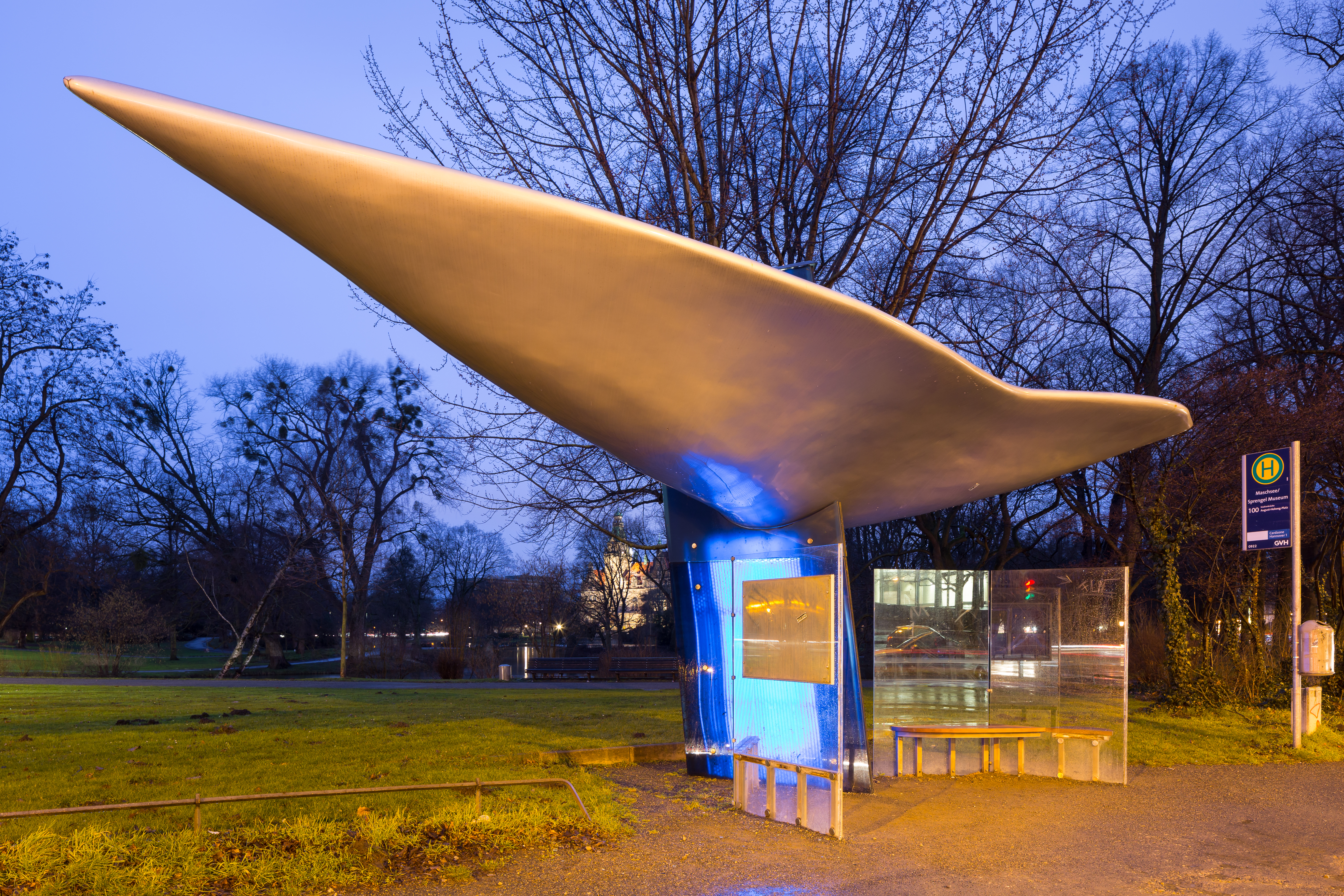 Bus station Maschsee / Sprengel Museum, designed by Heike Muehlhaus as part of the BUSSTOPS art project. The station is located at Kurt-Schwitters-Platz in Mitte quarter of Hannover, Germany.